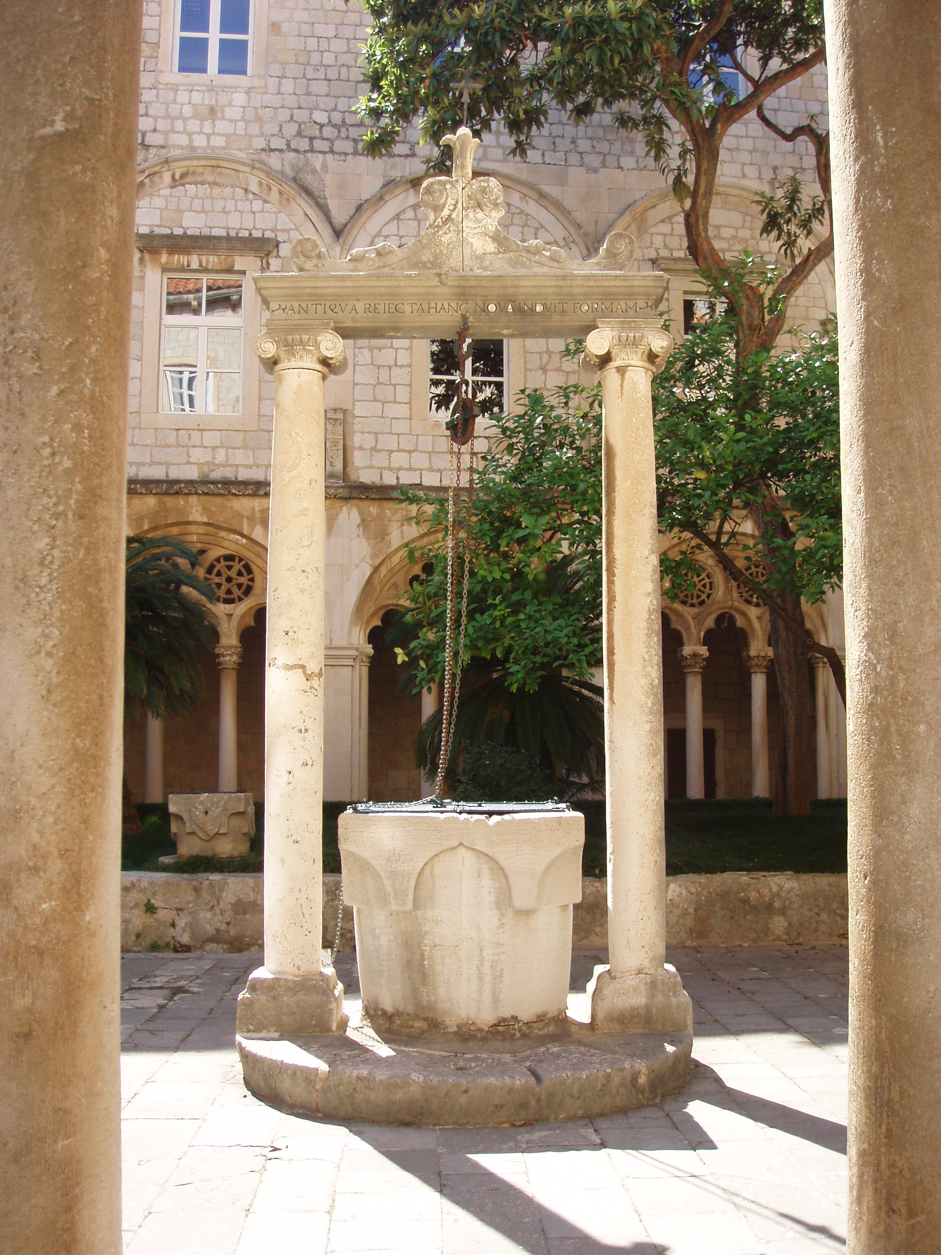 The well at the courtyard of Dominican monastery in Dubrovnik